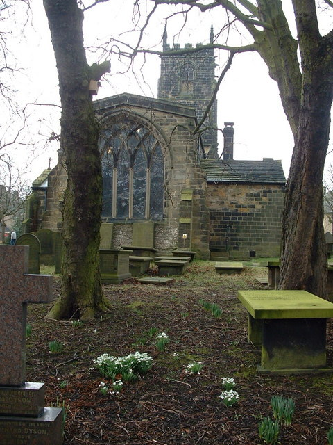 St. John the Baptist , Penistone. An imposing church dating from 1300 or earlier.For more details